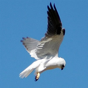 Bird, Black-shouldered Kite, Elanus axillaris